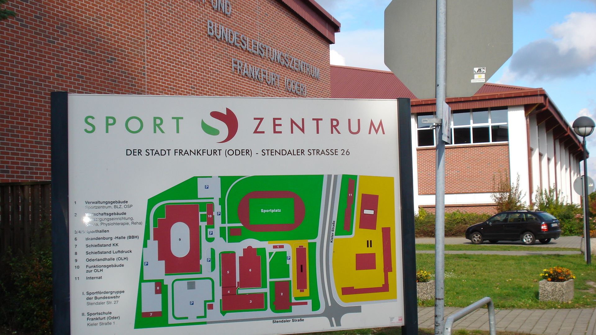 Sport Centre in Frankfurt (Oder), Brandenburg, Germany